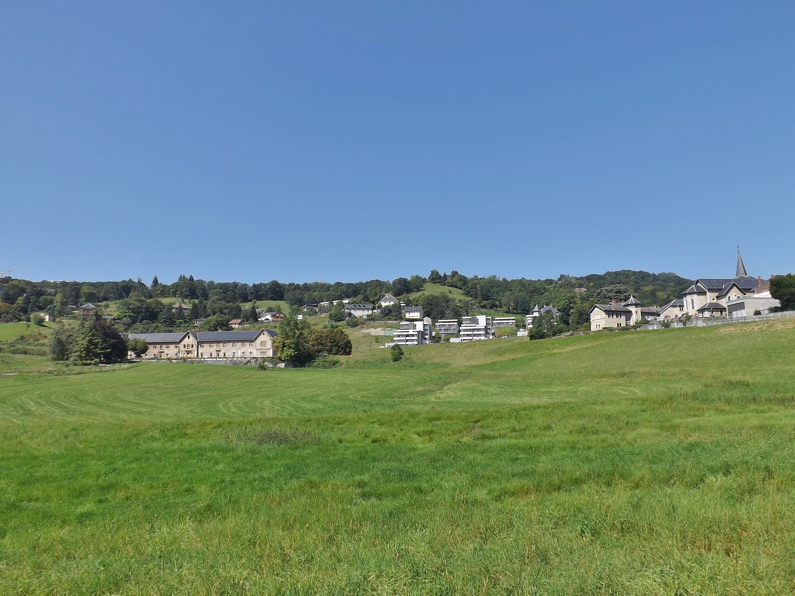 General sight on the French commune of Bassens, near Chambéry in Savoie. Can be seen, on the left, the ferme de Bressieux farm, and on the right, the church and town hall.